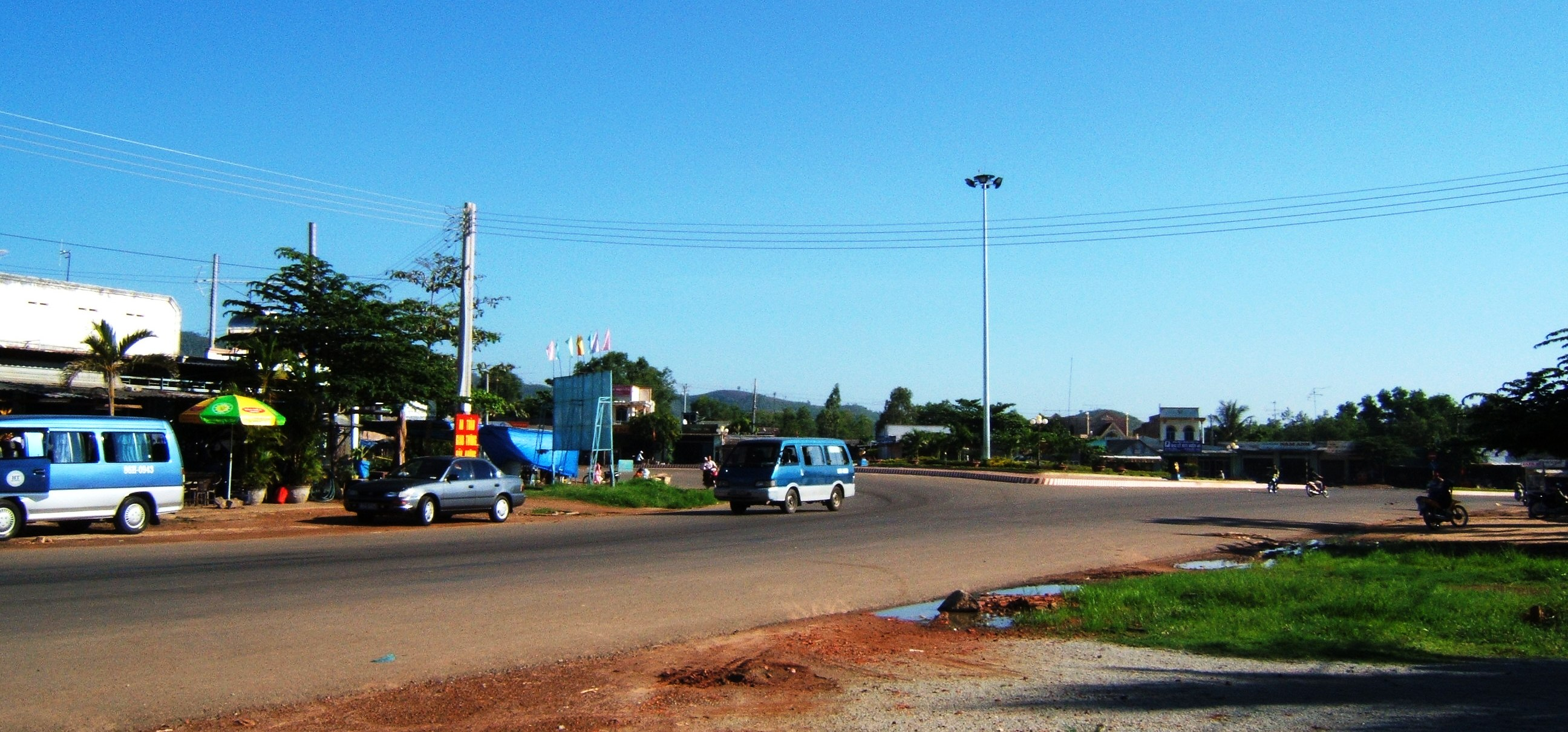 Road Junction to HW 1A, Tan Nghia town, Ham Tan district, Binh Thuan province, Vietnam